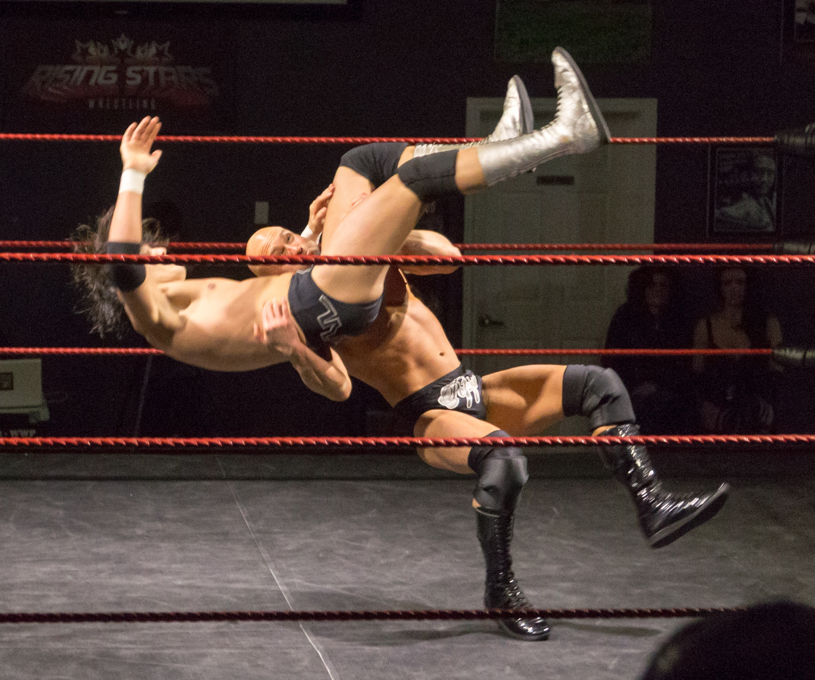 Wrestler Pepper Parks (bottom) executing a belly-to-back suplex on RJ City at Destiny Wrestling's debut show in Mississauga, ON